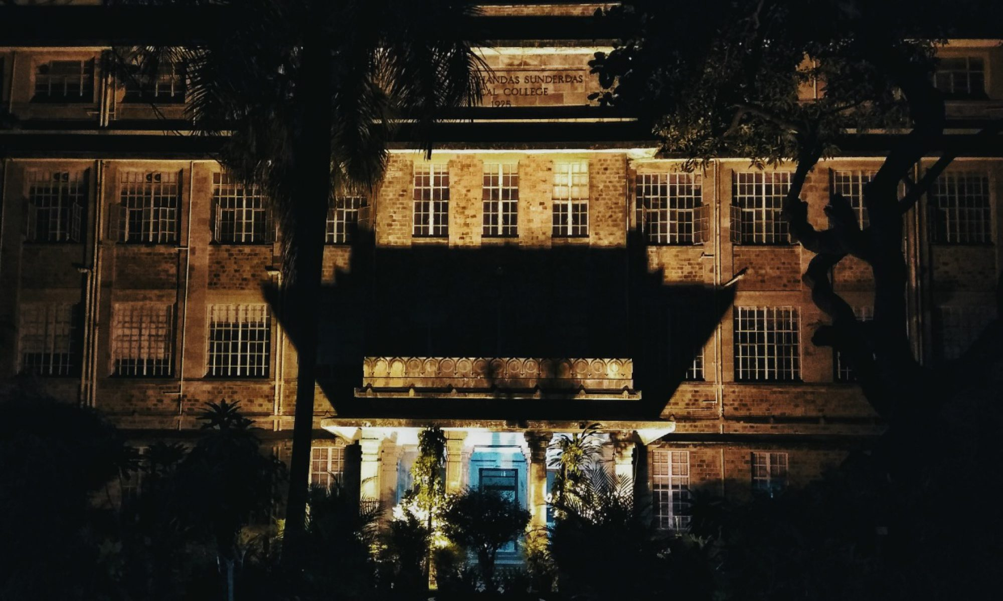 college building at night